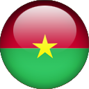 Button-like image of country described in filename